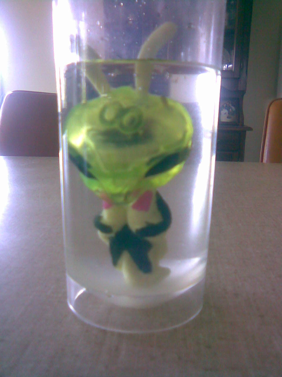 One of the Test Tube Aliens toys, in its 'infancy', just after hatching from its chrysalis.